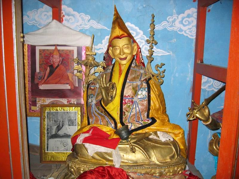 Statue of Trijang Rinpoche, tutor of the current Dalai Lama,, Sera Mey Monastery, Bylakuppe, India.